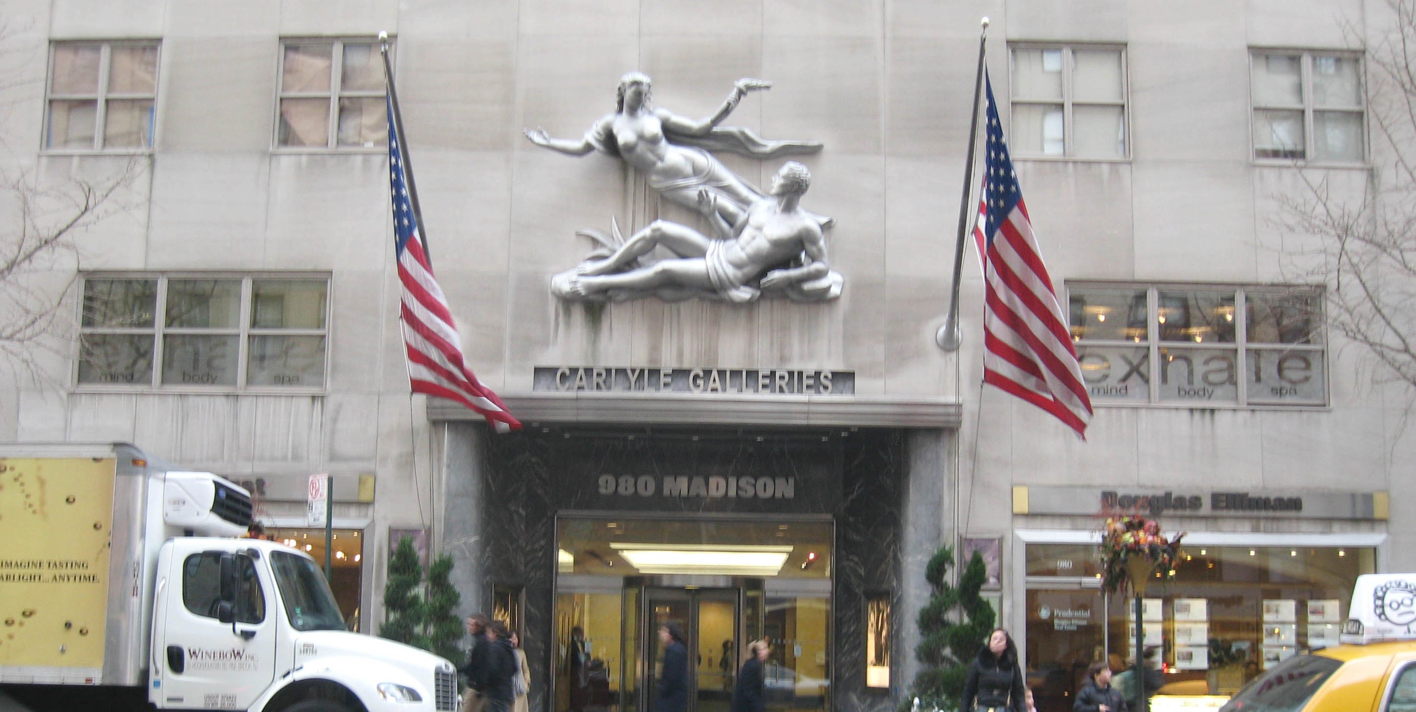 Looking west across Madison Avenue at Carlyle Galleries on a cloudy afternoon. ZIP 10021. ]